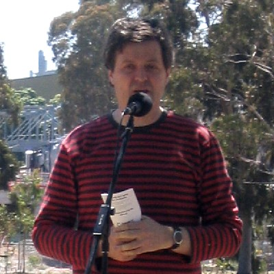 Dr Paul Mees, pictured at Royal Park in Melbourne on 2006-11-11